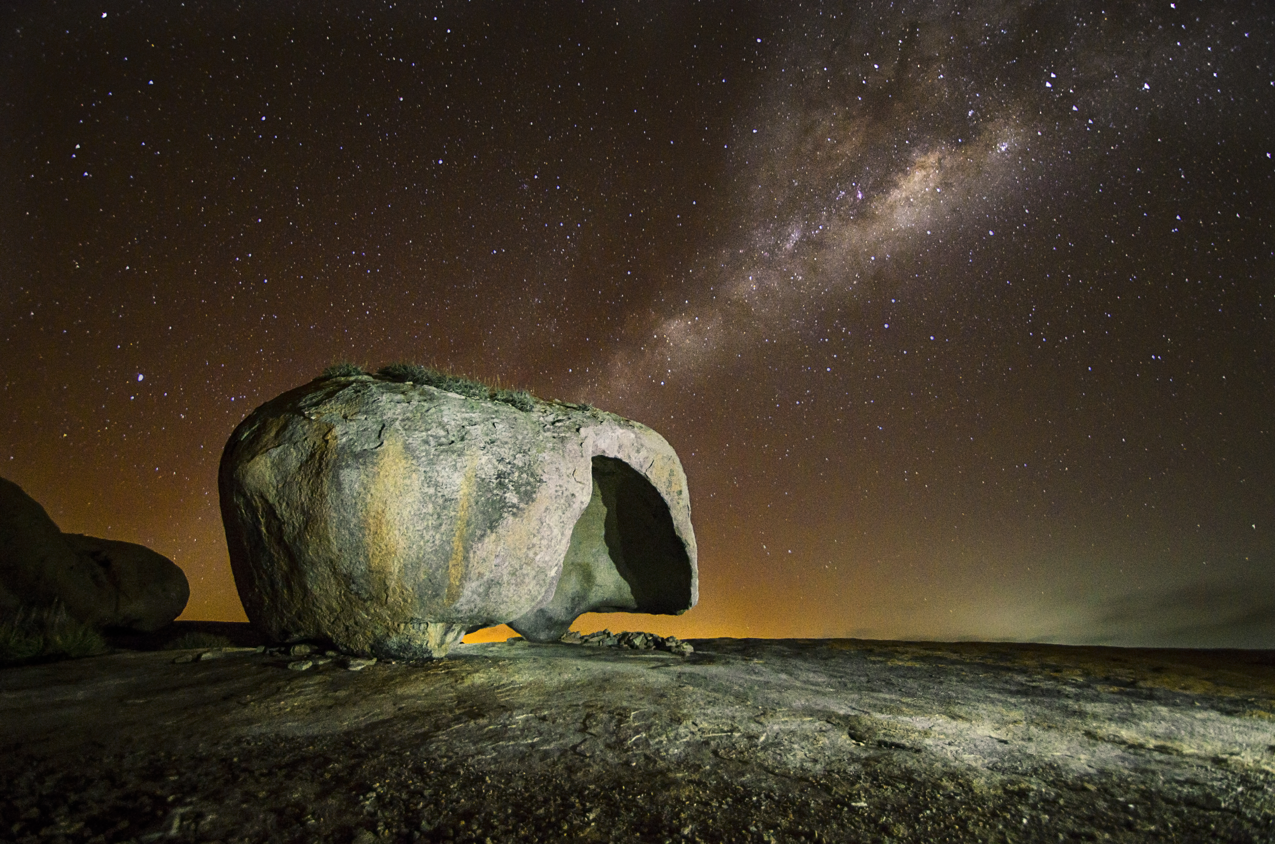 The iconic Pedra do Capacete,located in Cabaceiras in the state of Paraiba, Brazil. (Helmet Stone) with the Milky Way in the background. A fantastic and unique place; such rock formation is only found in Devil's Marbles on the Australian Outback, Erongo Mountains in Namibia and the Hoggar region in Algeria.